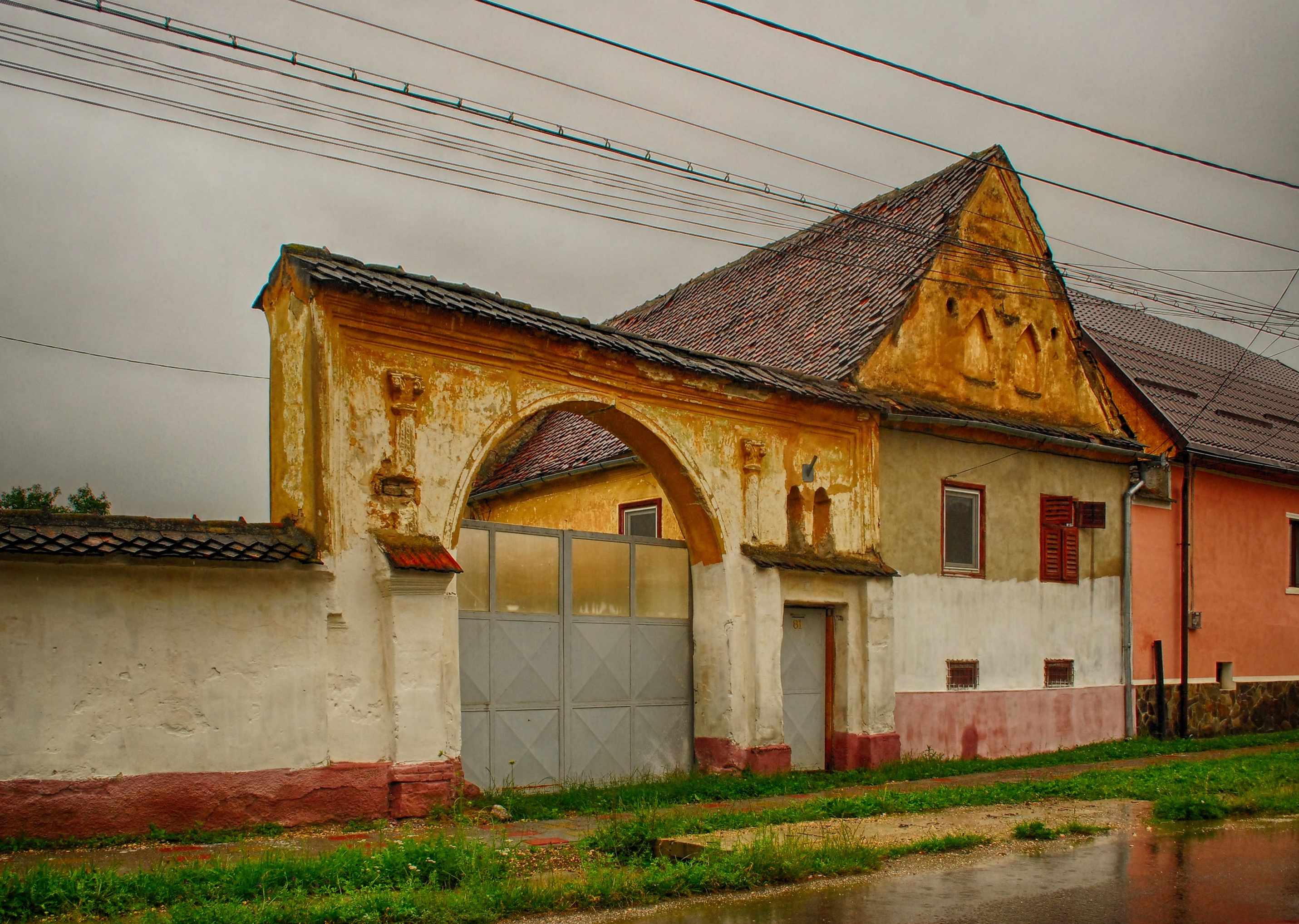 House on Dorobanți street 81 in Hărman, Brașov County, RomaniaRomână: Casa din strada Dorobanți nr. 81, Hărman, județul Brașov, România